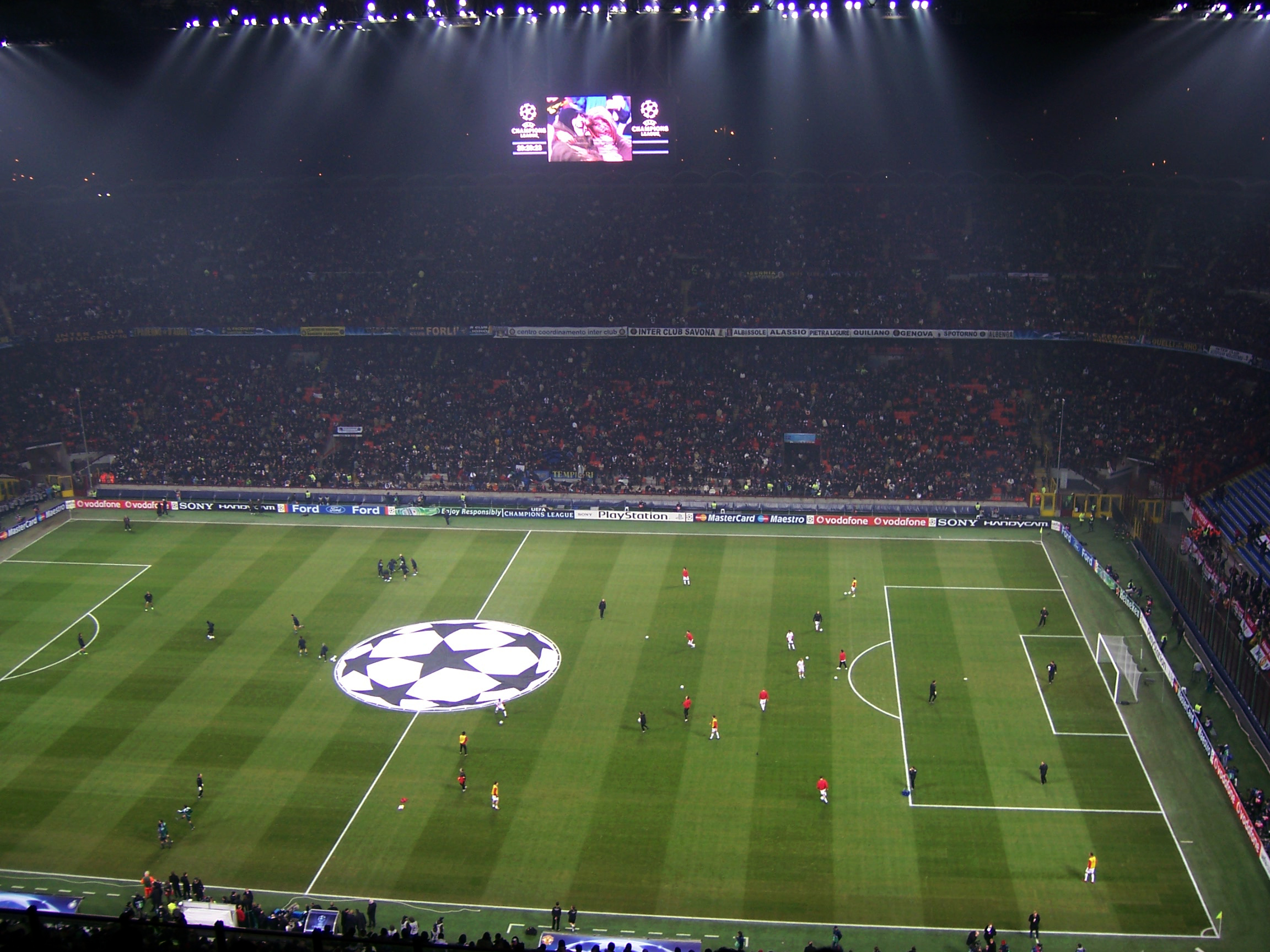 Inter against Manchester United in the round of the last 16 in the Champions League season 2008/09.